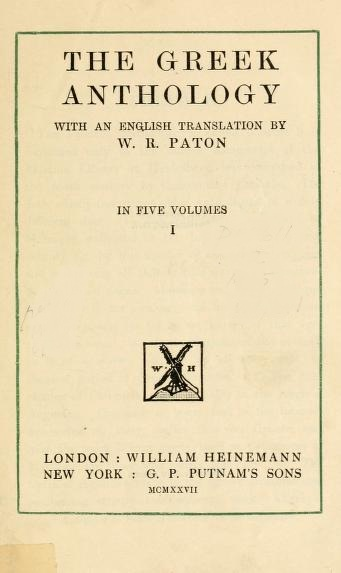 First page from W. R. Patton's book Greek Anthology, 1927